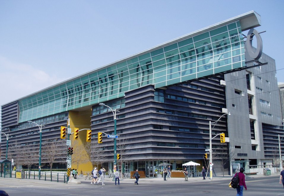 Graduate House at the University of Toronto. Taken by SimonP in April, 2005.